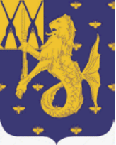 Coat of Arms 43rd Infantry Regiment, Philippine Scouts